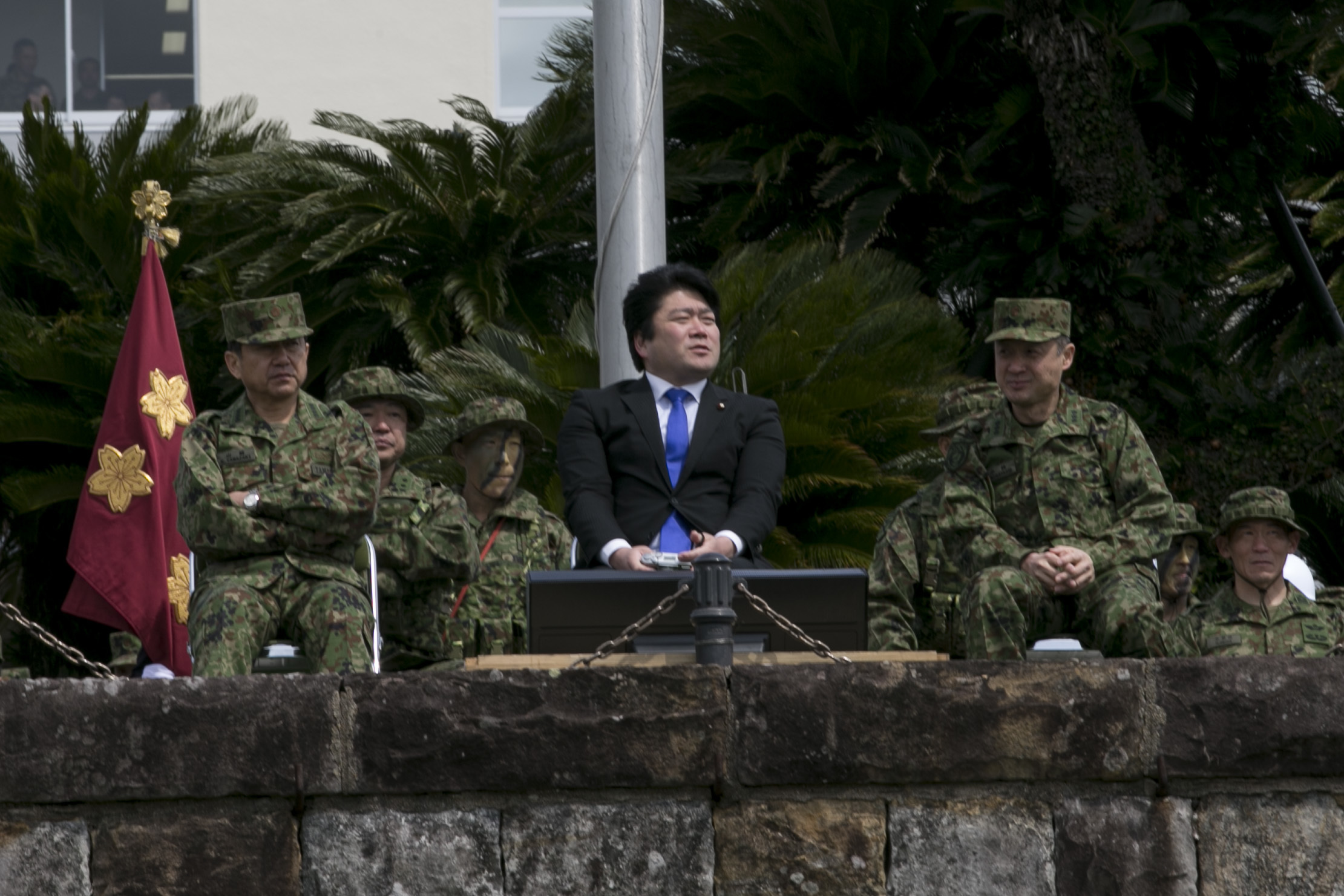 U.S. and Japanese officials watch the Japanese Amphibious Rapid Deployment Brigade’s unit-activation ceremony at Camp Ainoura, Japan, April 7, 2018. The 31st Marine Expeditionary Unit supported the ceremony with a fast rope demonstration from a CH-53E Super Stallion. As the Marine Corps’ only continuously forward-deployed MEU, the 31st MEU provides a flexible force ready to perform a wide range of military operations throughout the Indo-Pacific region.